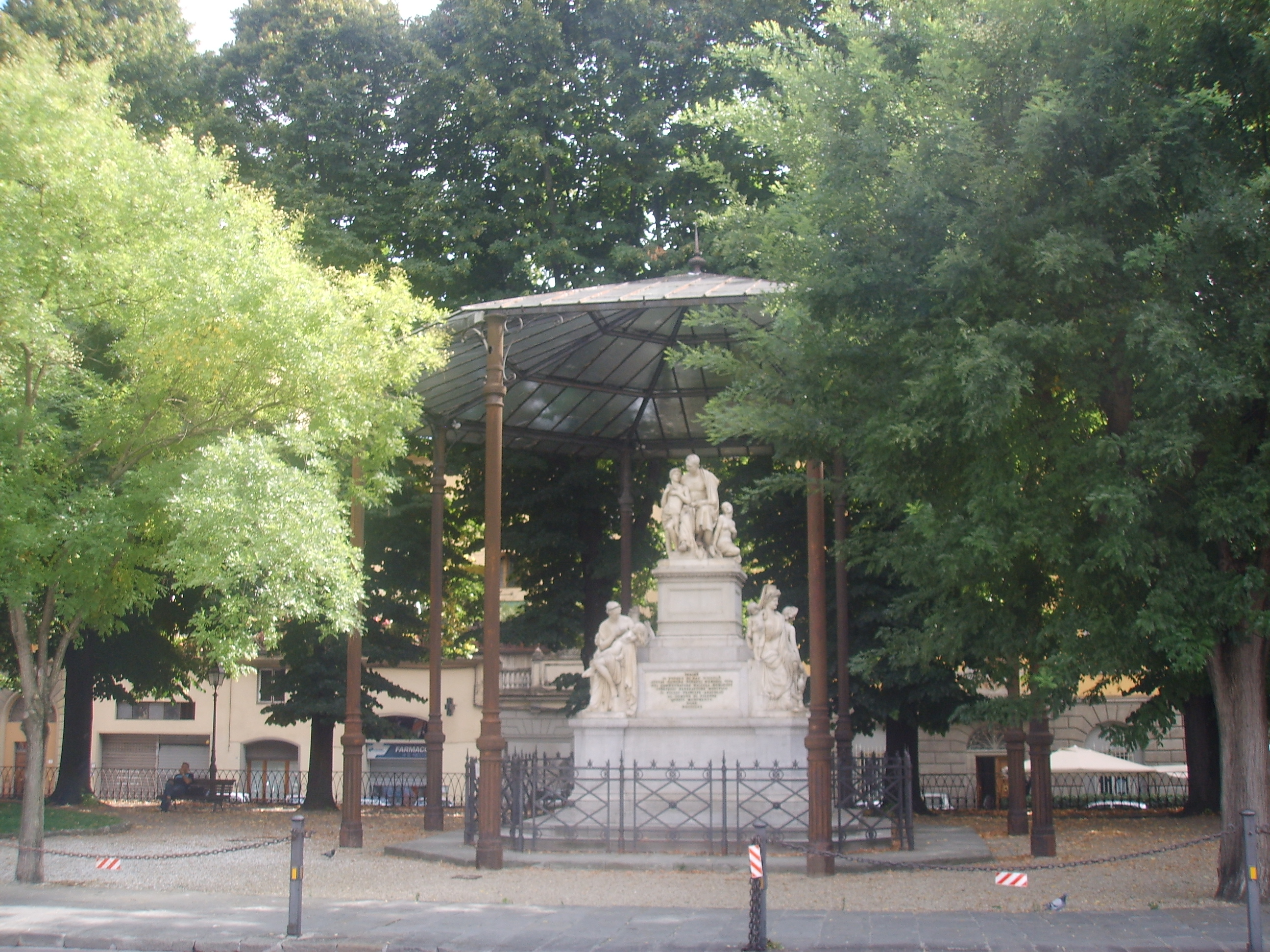 The Monument to Nicola Demidoff in "Piazza Demidoff" square in Florence, Italy, was sculpted by Lorenzo Bartolini in 1830/50, and achieved because of his death by his pupil Romano Romanelli. It was inaugurated in 1870.